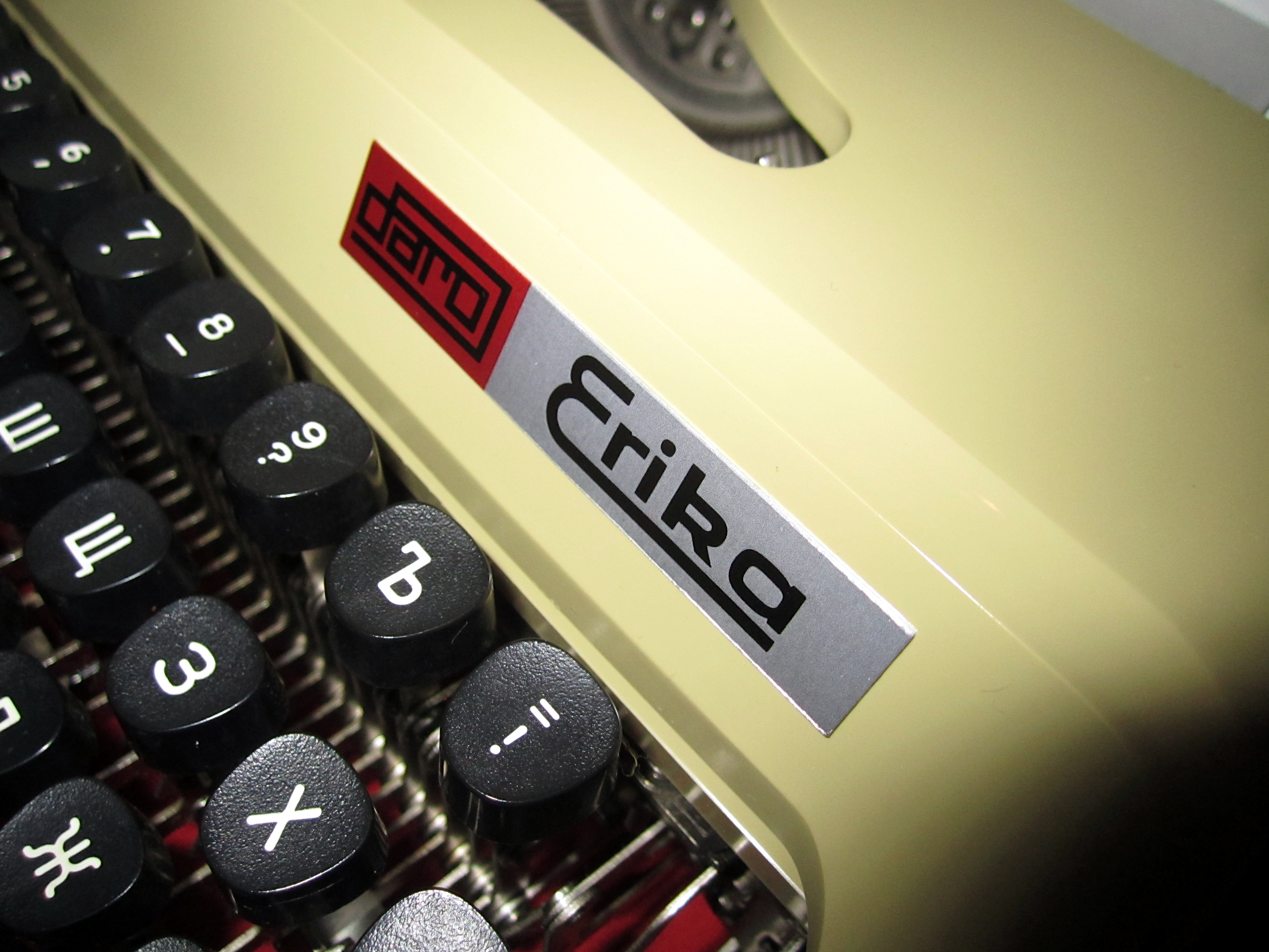 Daro Erika typewriter (manual says type 50/60) brand logo from German Democratic Republic, circa 1974–1990. Typeface Russian Cyrillic.